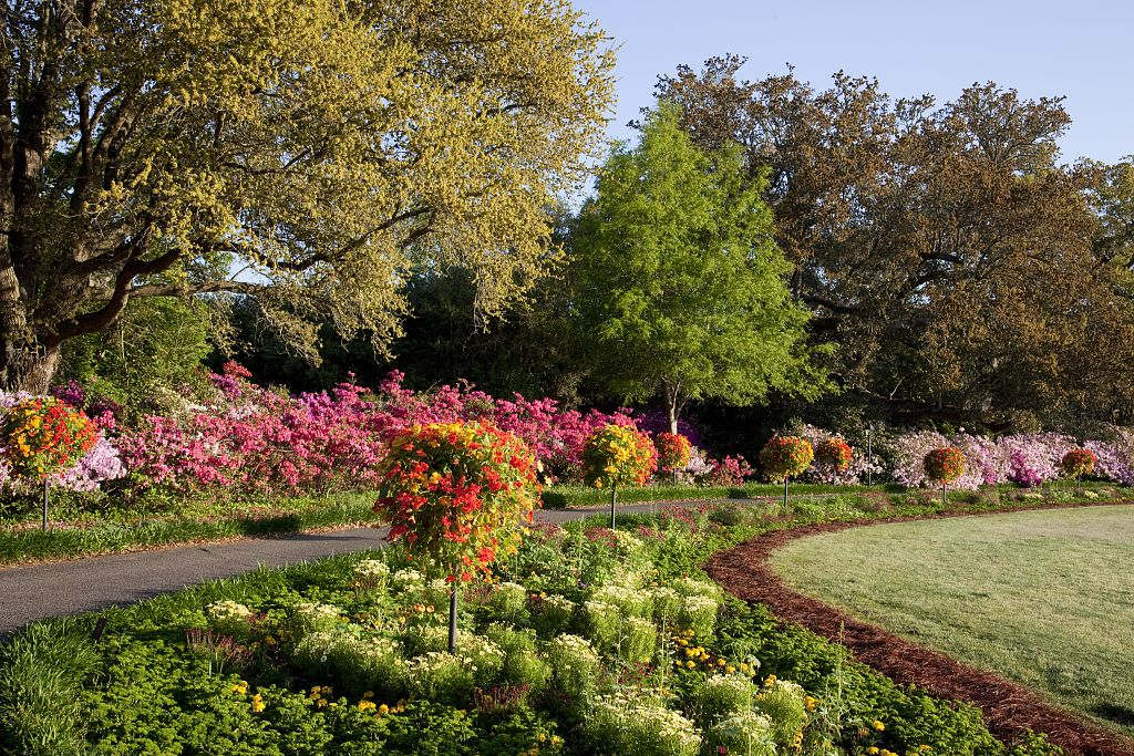 Bellingrath Gardens and Home, the creation of Mr. and Mrs. Walter Bellingrath in Theodore, Alabama